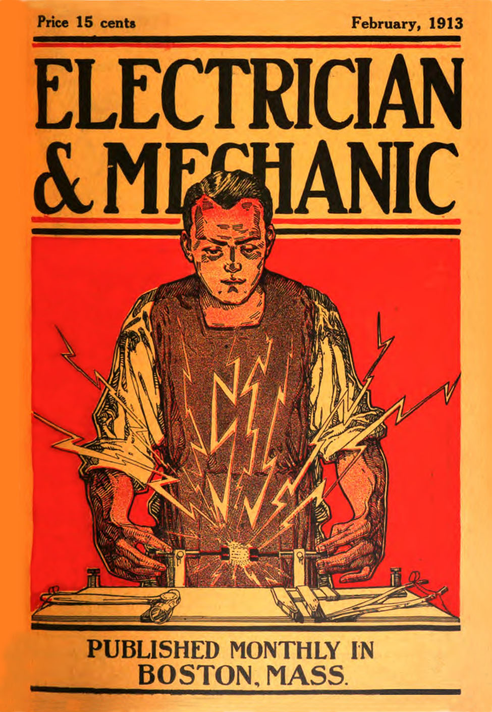 Electrician and Mechanic February 1913 Image:Electrician and Mechanic Feb 1913 Cover.jpg Image:Electrician and Mechanic Feb 1913 toc.png Image:Electrician and Mechanic Feb 1913 pg78.png Image:Electrician and Mechanic Feb 1913 pg125.png Started as Bubier's Popular Electrician in 1890, the magazine was acquired by Sampson Publishing Company and the title was changed to Electrician and Mechanic in July 1906. The magazine was purchased by Modern Publishing and combined with Modern Electrics in January 1914 as Modern Electrics and Mechanics. After a series of mergers and title changes the magazine became Popular Science Monthly in October 1915 and is still published today.